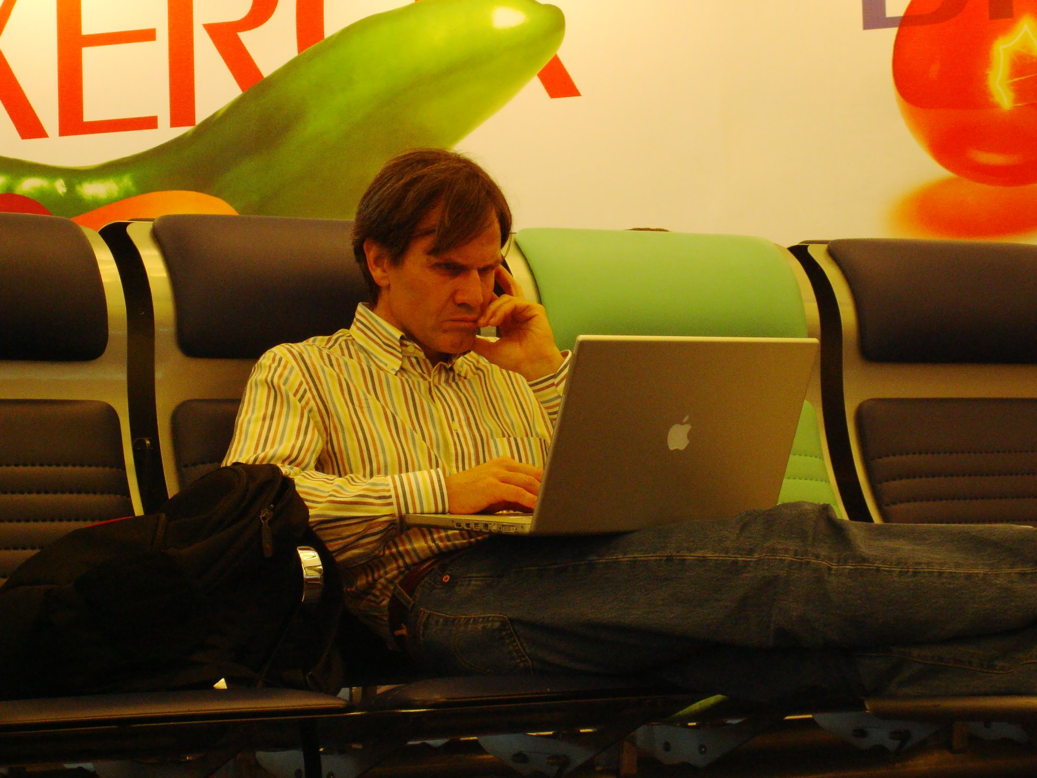 Aaron Sorkin at the John F. Kennedy International Airport in New York City, New York, United StatesWorried.